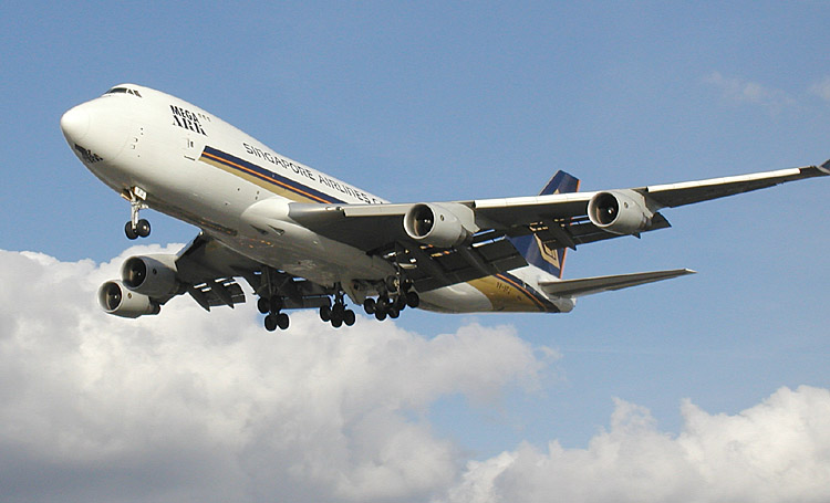 Boeing 747-400 of Singapore Airlines Cargo (9V-SFJ) on the approach to London (Heathrow) Airport.